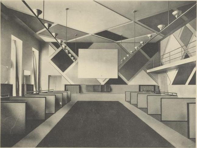 Ciné-dancing, Aubette, Strasbourg. From Boutiques et magasins, [1929], p. 40.